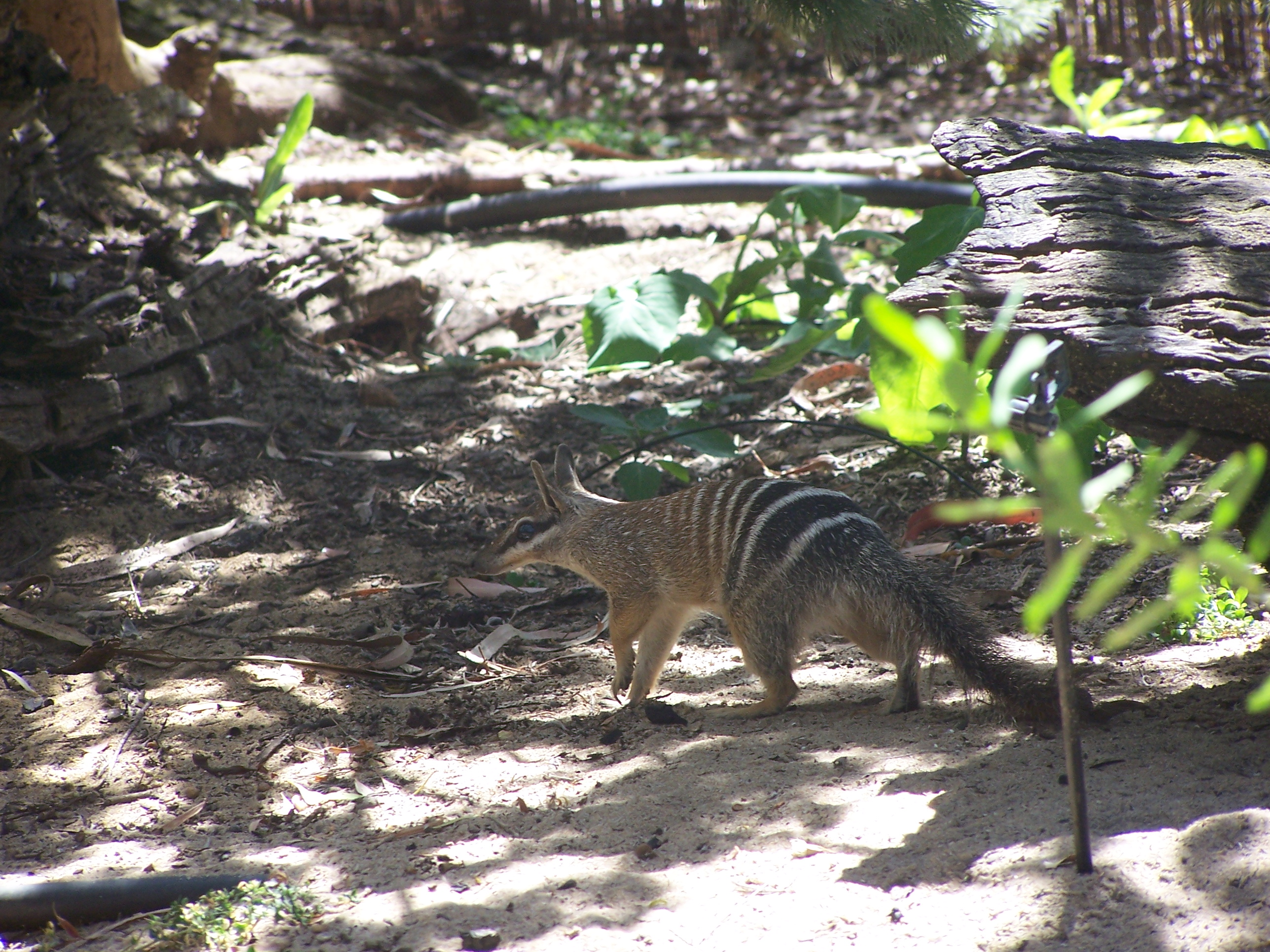 Female Numbat (Myrmecobius fasciatus) at the Perth Zoo